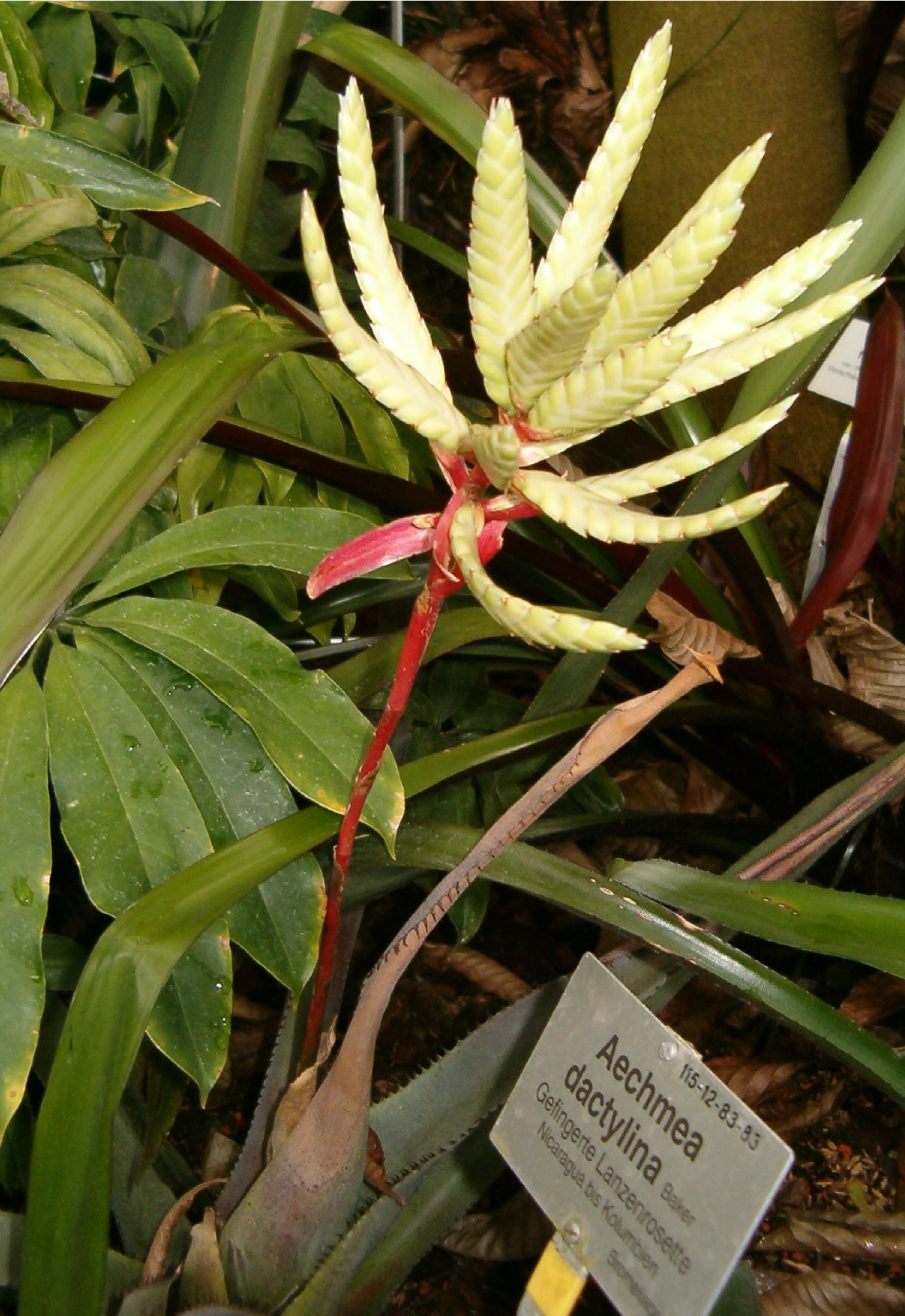 Habitus and Inflorescence Location: Botanical Gardens Berlin